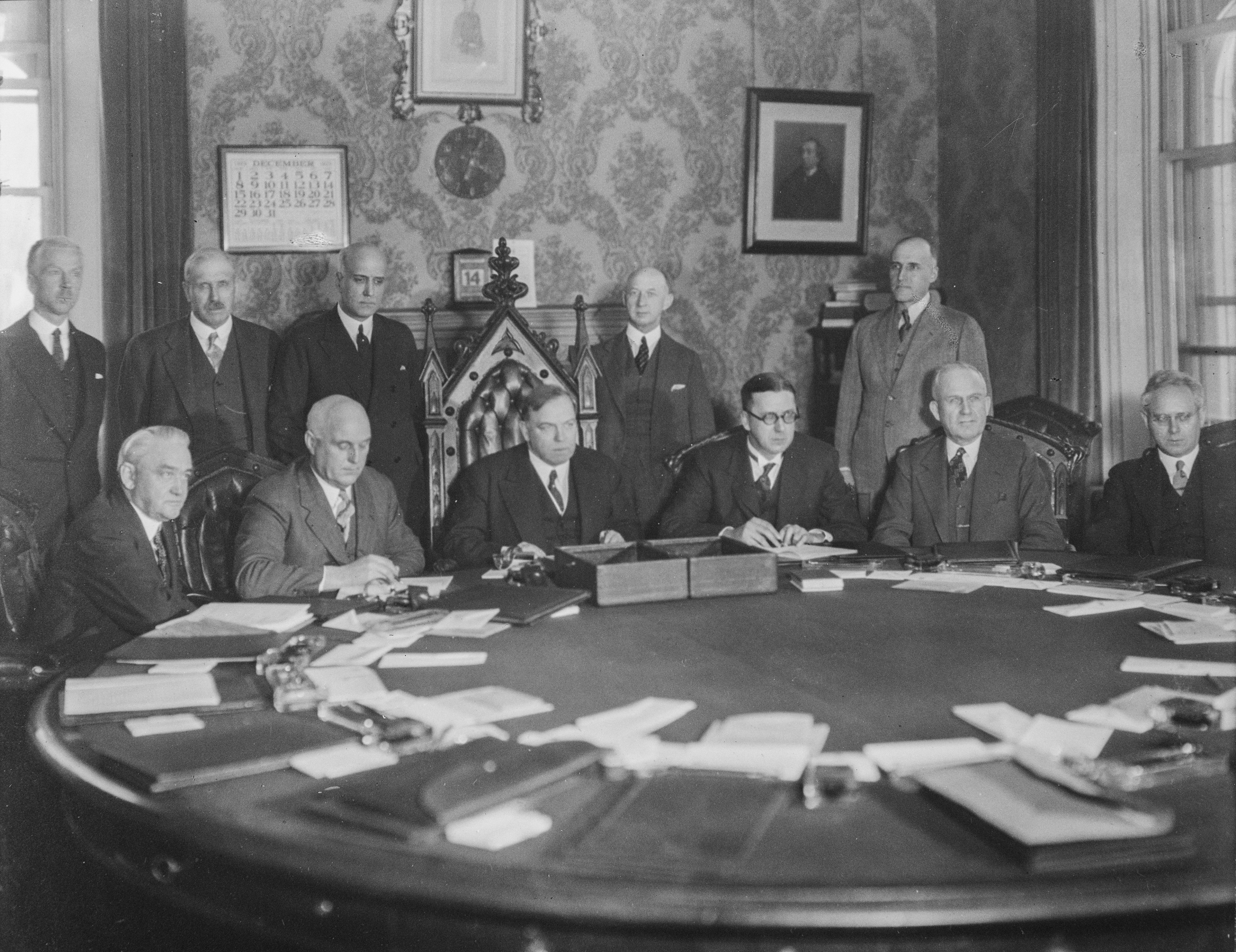 The signing of the agreement between the Canadian and Alberta governments that gave Alberta jurisdiction over crown lands and natural resources. Prime Minister William Lyon MacKenzie King is seated third from left. Alberta Premier John Brownlee is seated third from right.